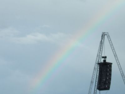 Taken by myself with my digital camera; more than happy to have it used as a visual representation of the festival.